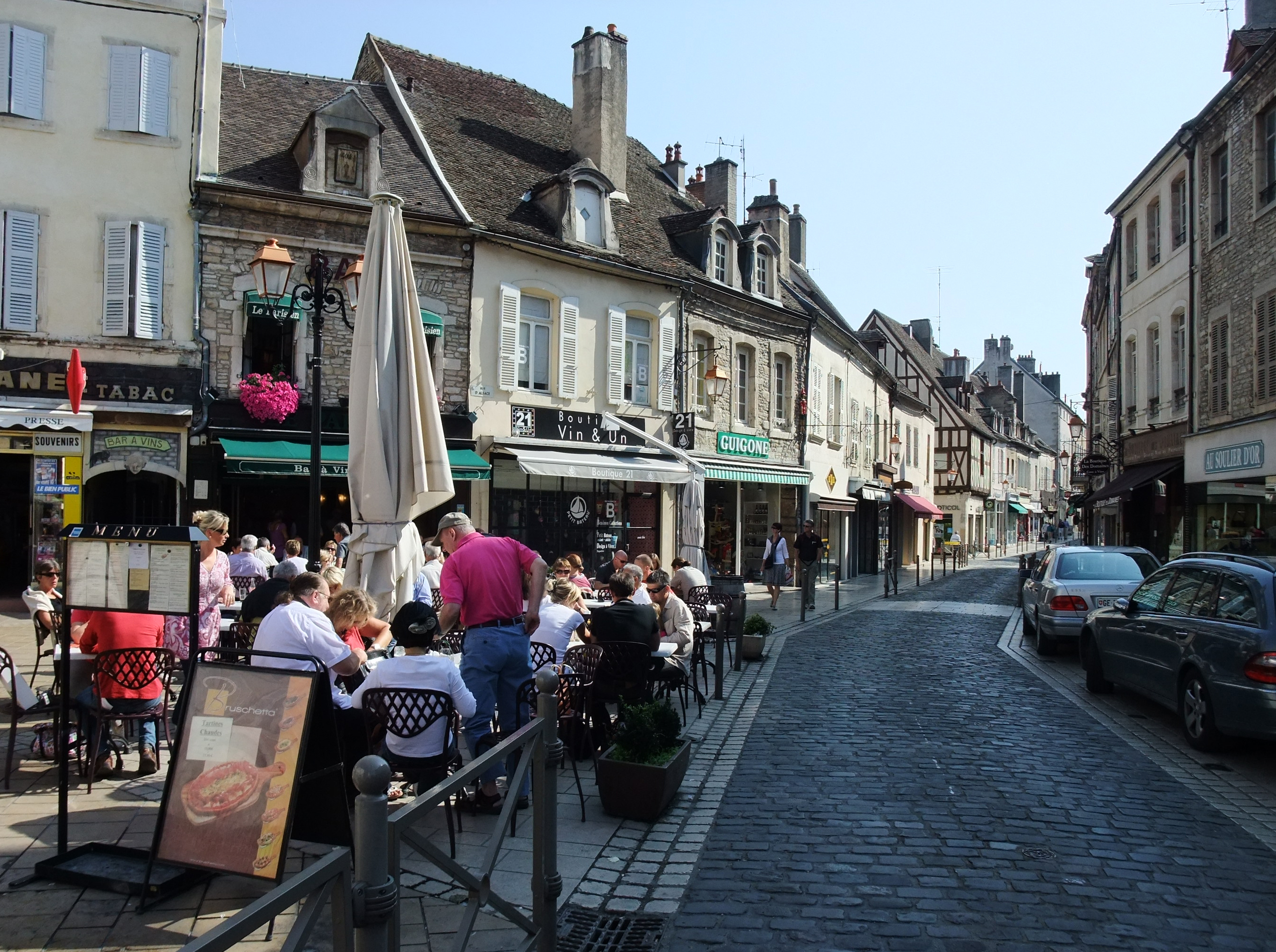 Rue d'Alsace in Beaune, Burgundy, France